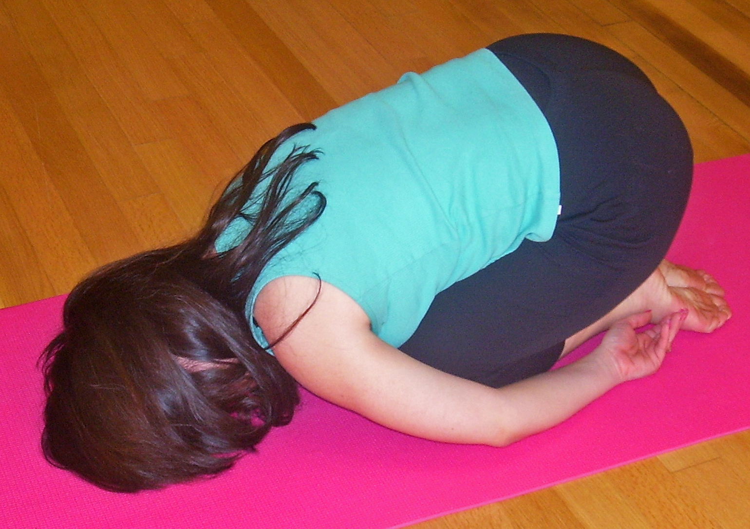 Balasana pose in Hatha yoga, commonly known as child pose, demonstrated by Doreen Foxworth of The Children's School of Yoga